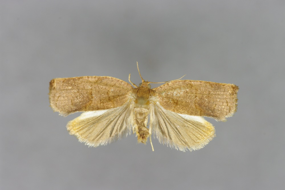 Archips rosana, male